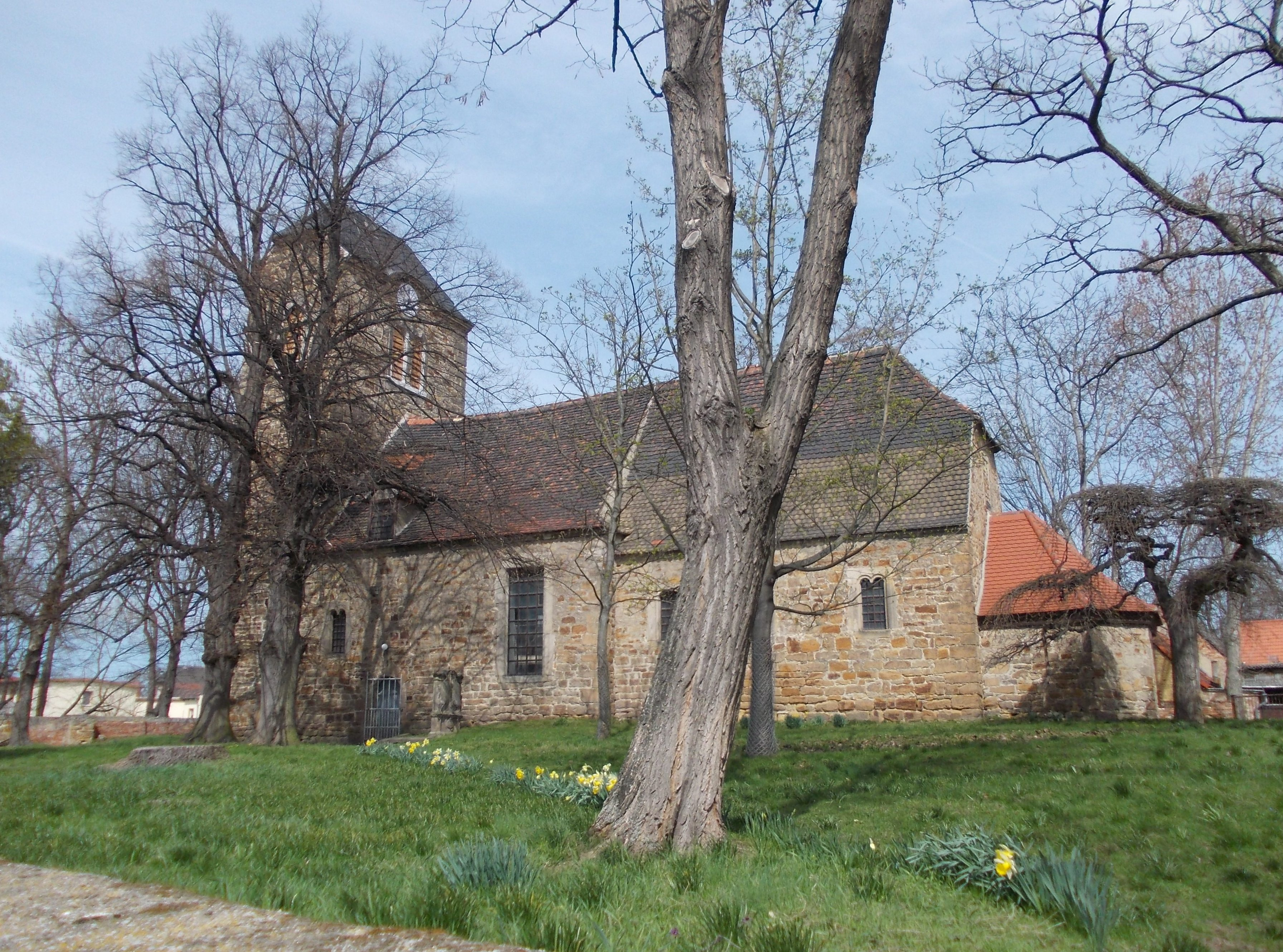 Schotterey church (Bad Lauchstädt, district of Saalekreis, Saxony-Anhalt)